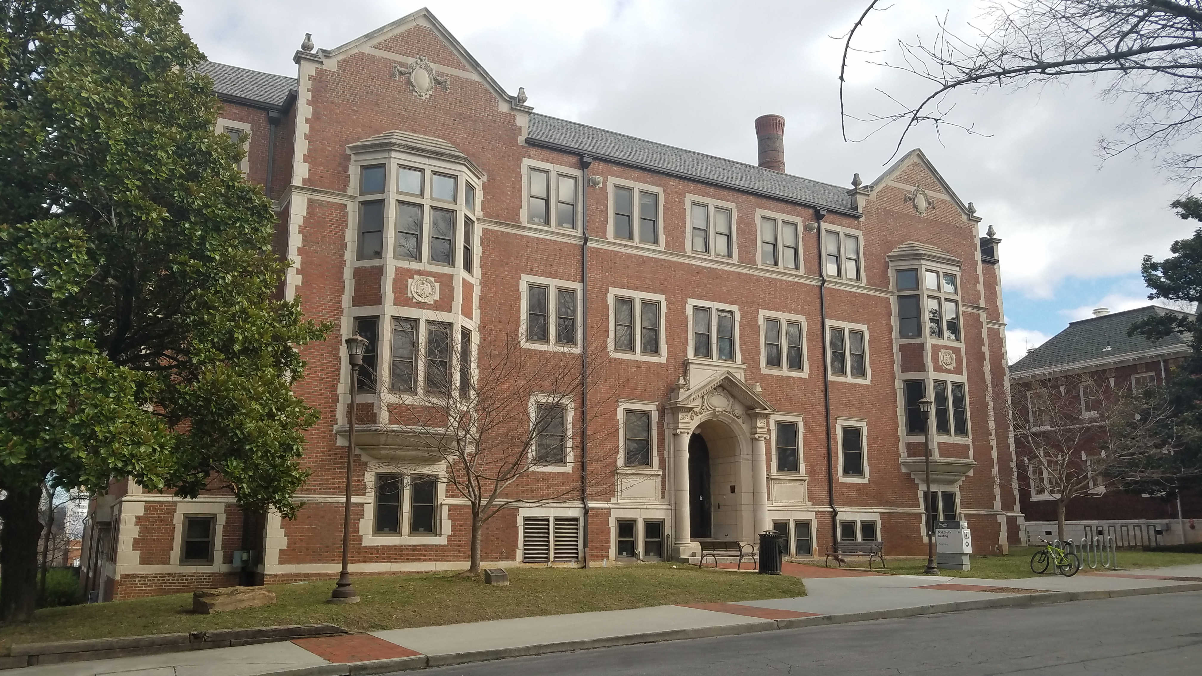 D.M. Smith Building on the main campus of the Georgia Institute of Technology, Atlanta, Georgia, United States